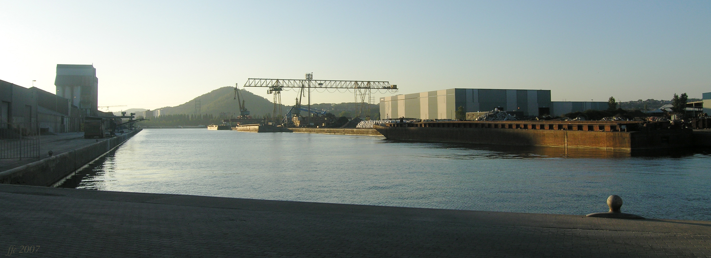 Liège (Belgium): Dock